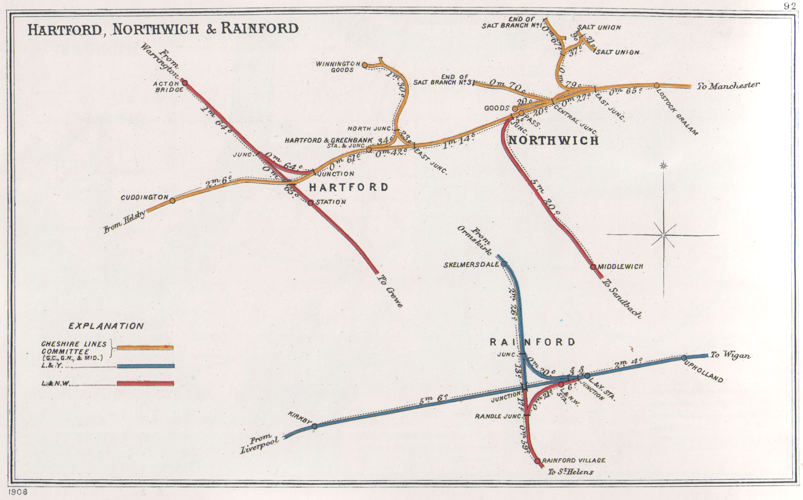 Diagram of railway junctions around Hartford, Northwich & Rainford